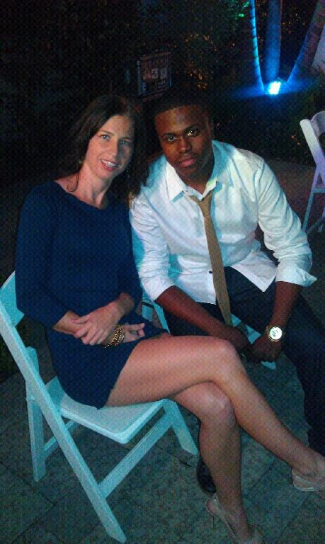 LME President Andi Rouse attends LA Fashion Week with Client & 90's star Ross Bagley